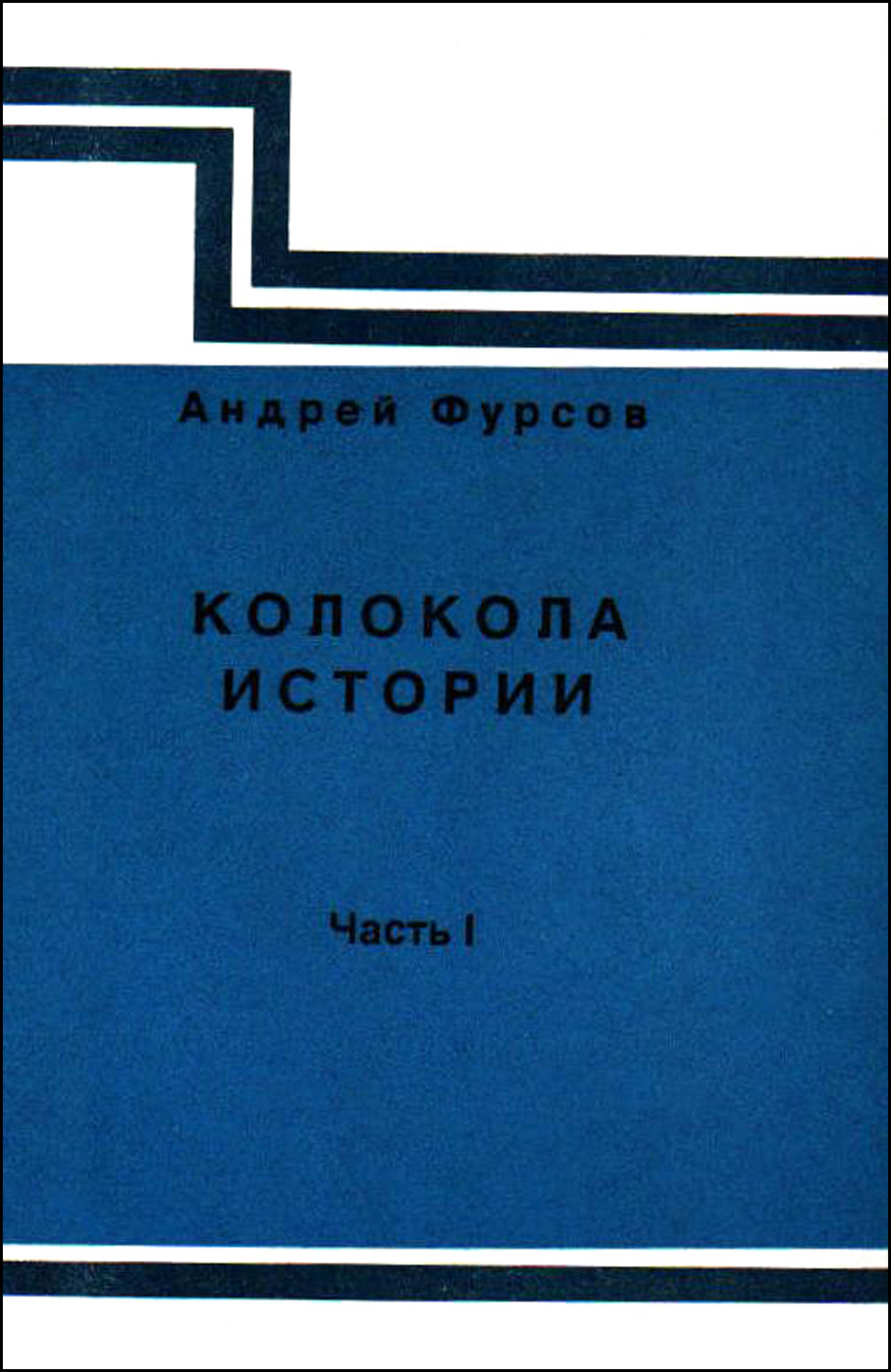 The cover of rare first edition of the book: A. Fursov,"History Bells"